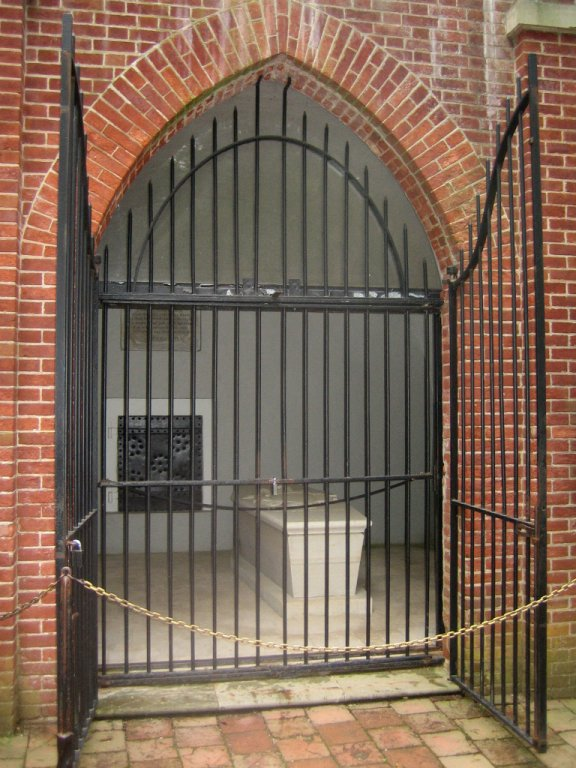 George Washington's tomb at Mount Vernon.